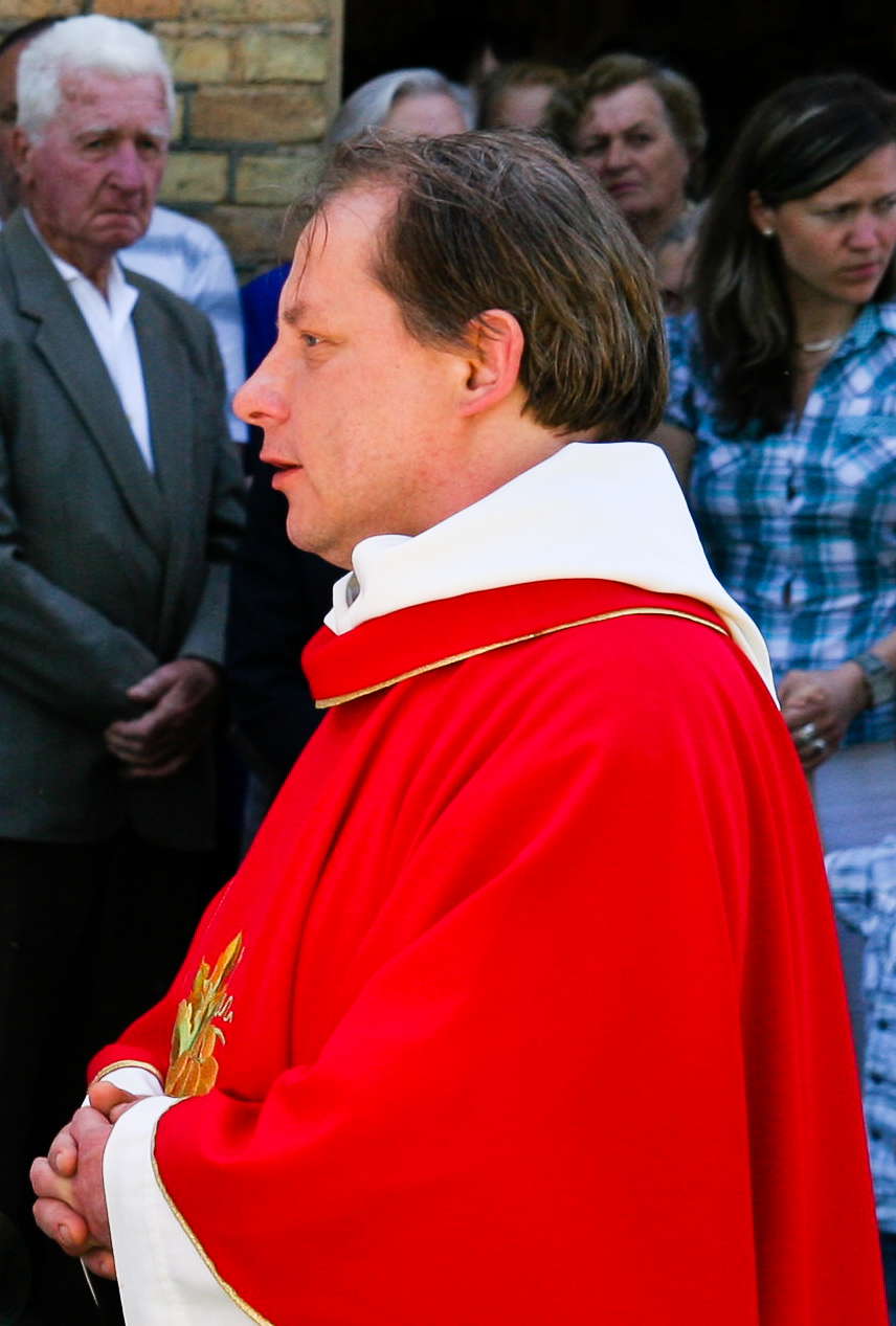 Priest Julius Sasnauskas in Vepriai